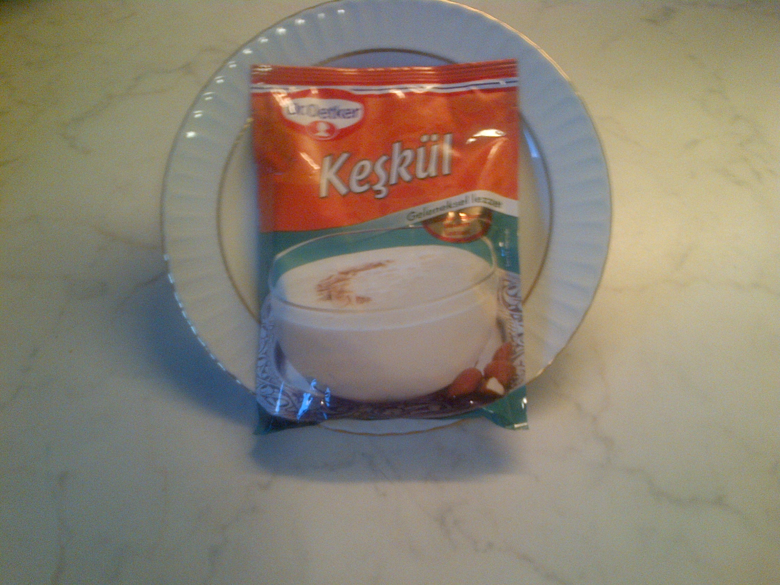 "Keşkül" pre-elaborated for cooking at home.